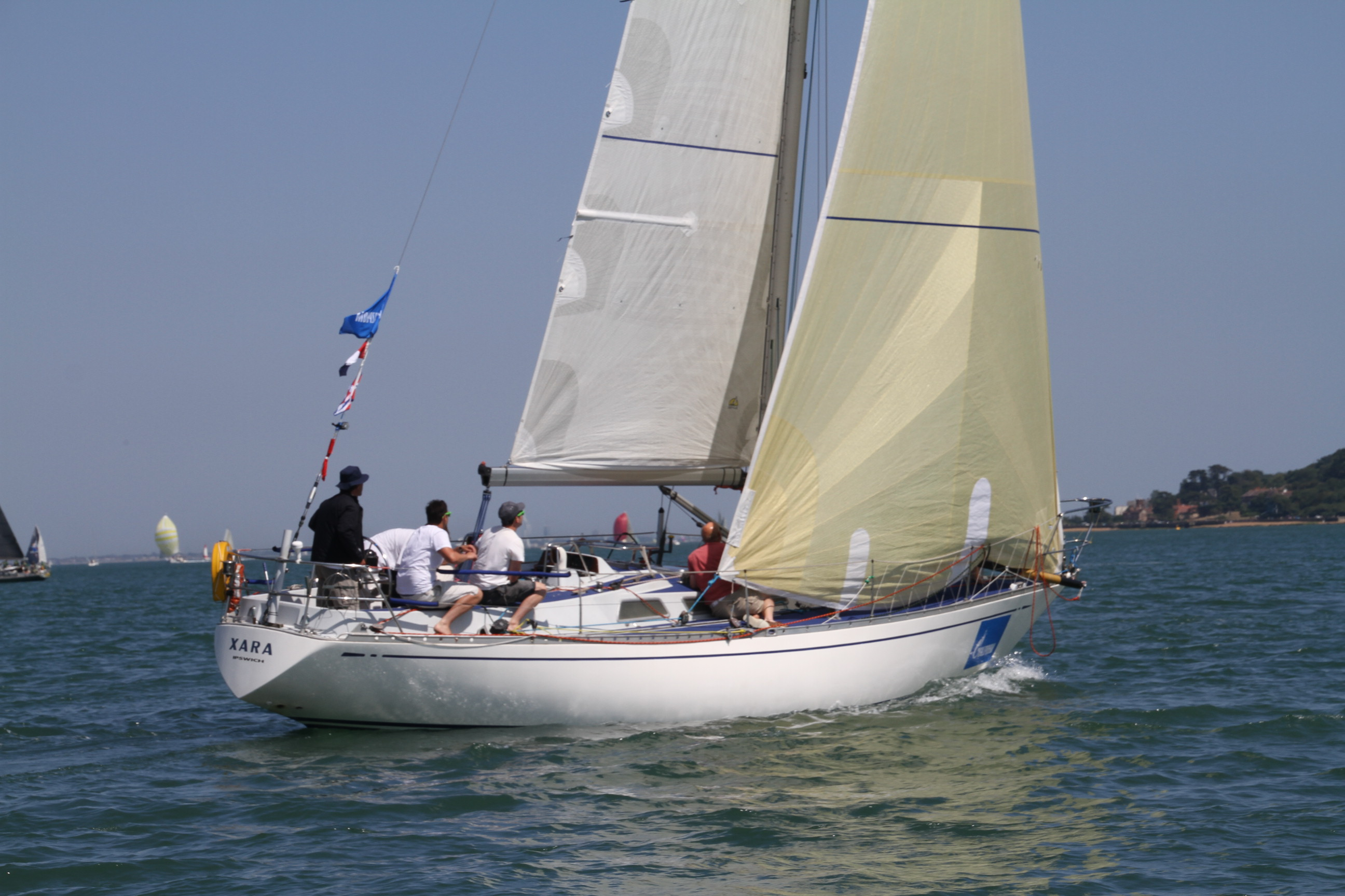 Swan38 GBR123 Xara at the 2013 Swan Europeans in Cowes (GBR) held by the Royal Yacht Squadron